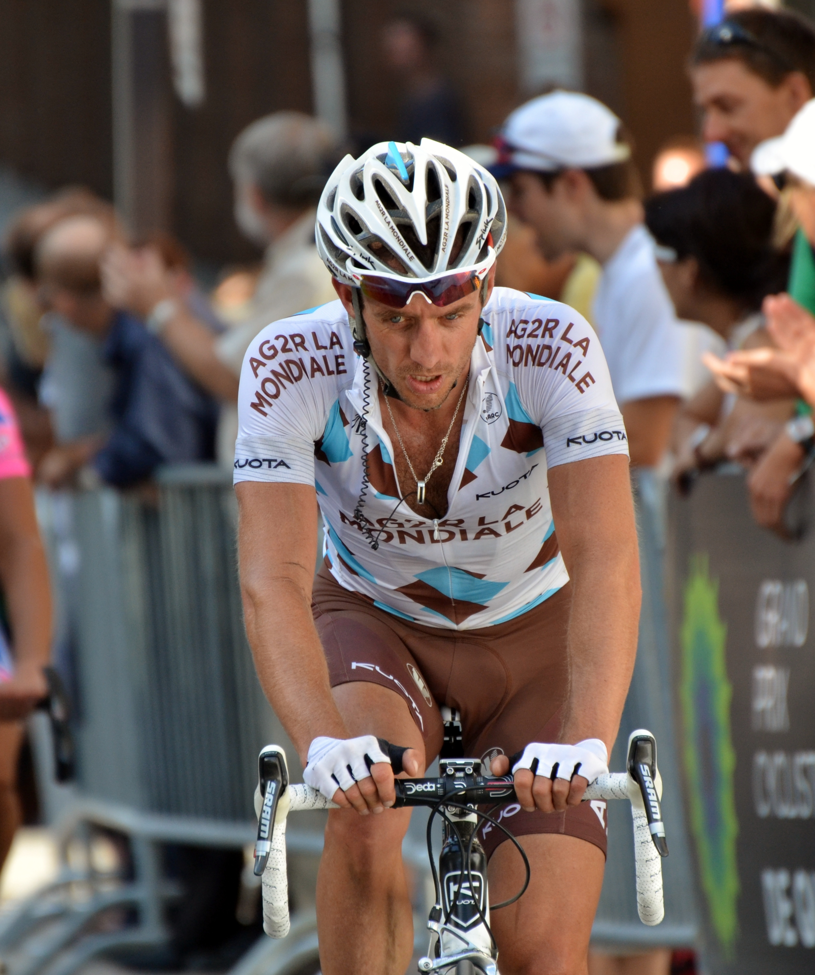 Sébastien Hinault at Quebec City's Grand Prix Cycliste 2011